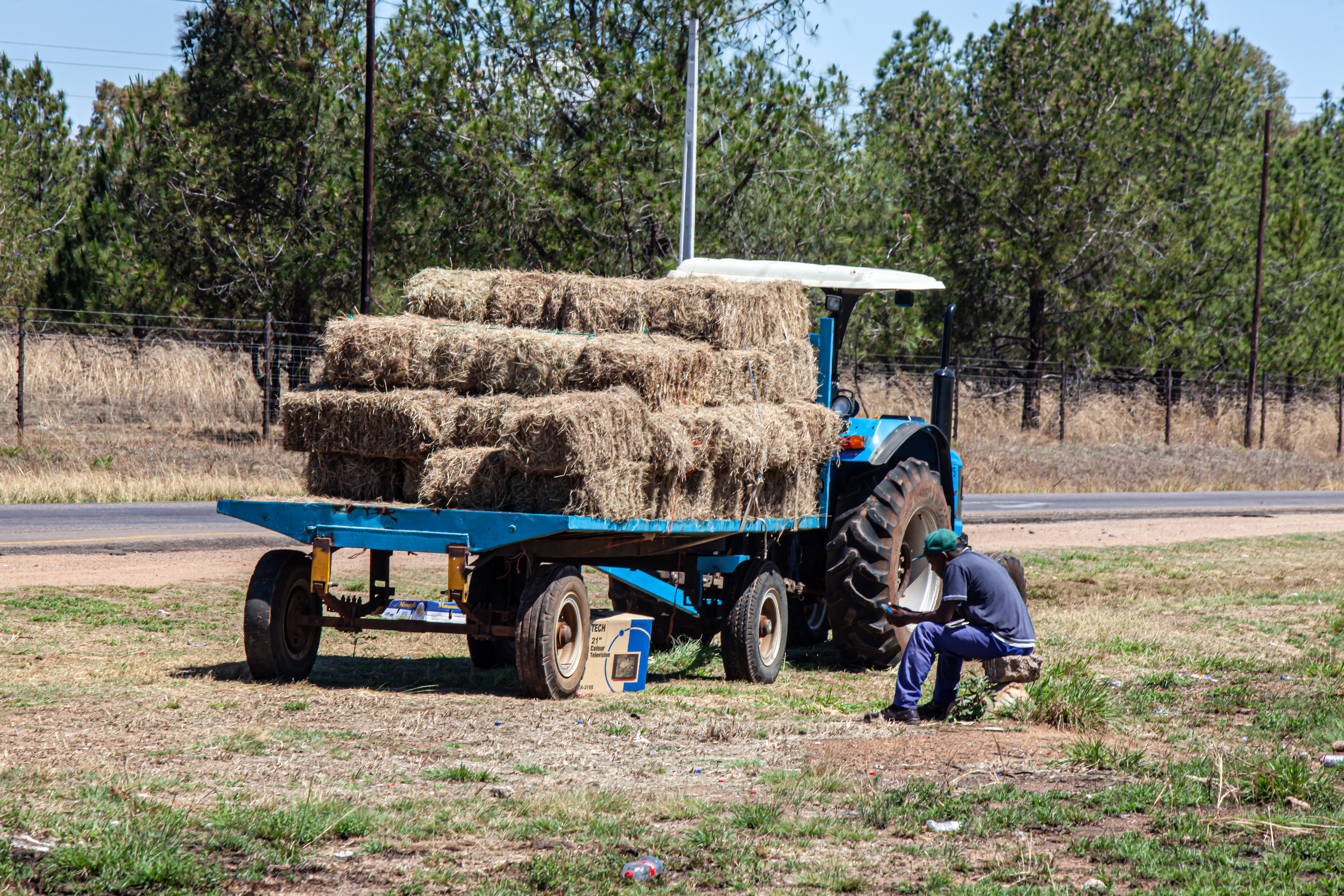 After 45 years of post-war peace commercial agriculture is slowly re-emerging and farmer with surplus produce have to be patient for consumers that have more live stock than they can feed on their own land or communal grazing and with surplus cash of course. This is an image with the theme "Africa on the Move or Transport" from: Angola